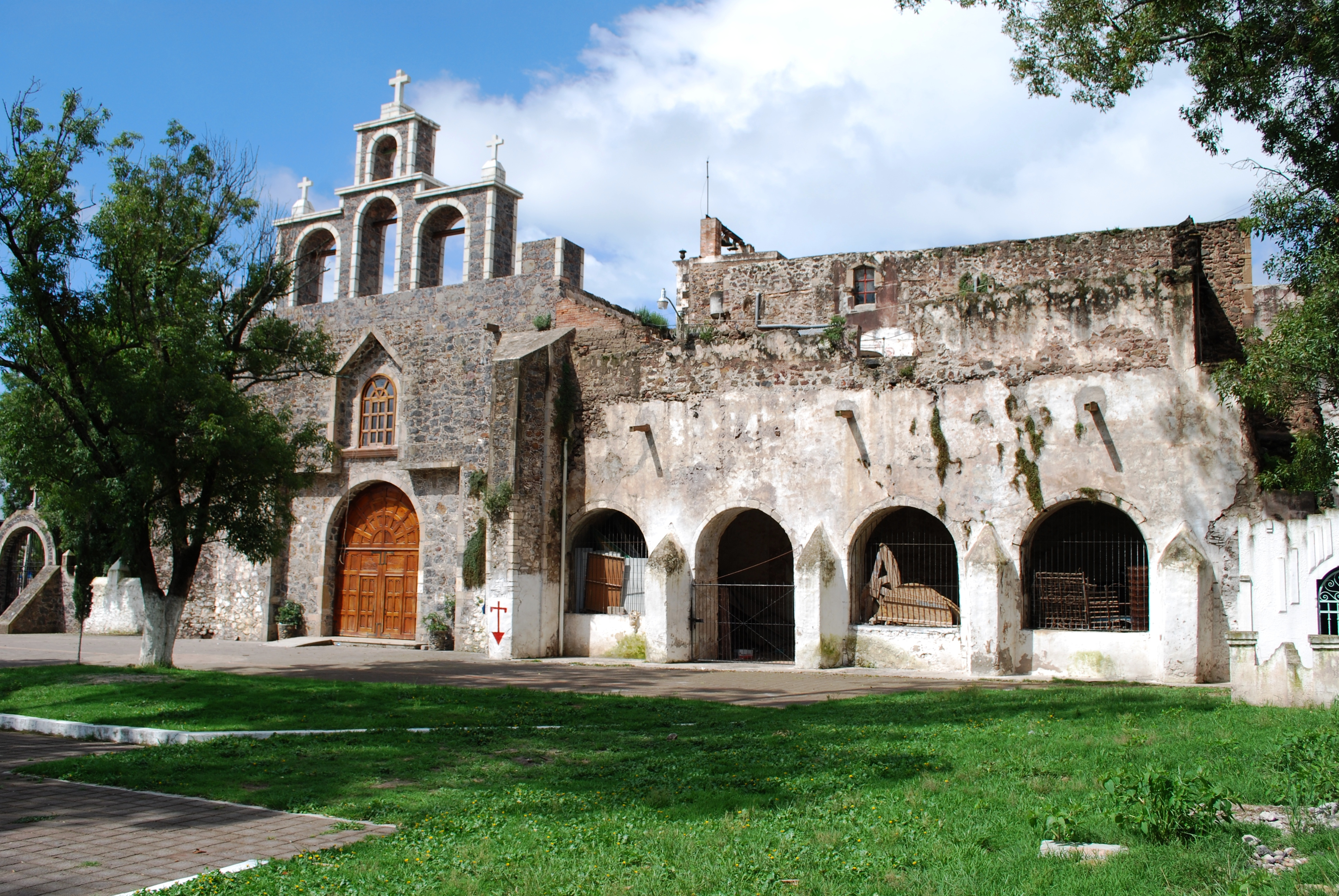 Facade of the monastery church in Acatlan, Hidalgo, Mexico